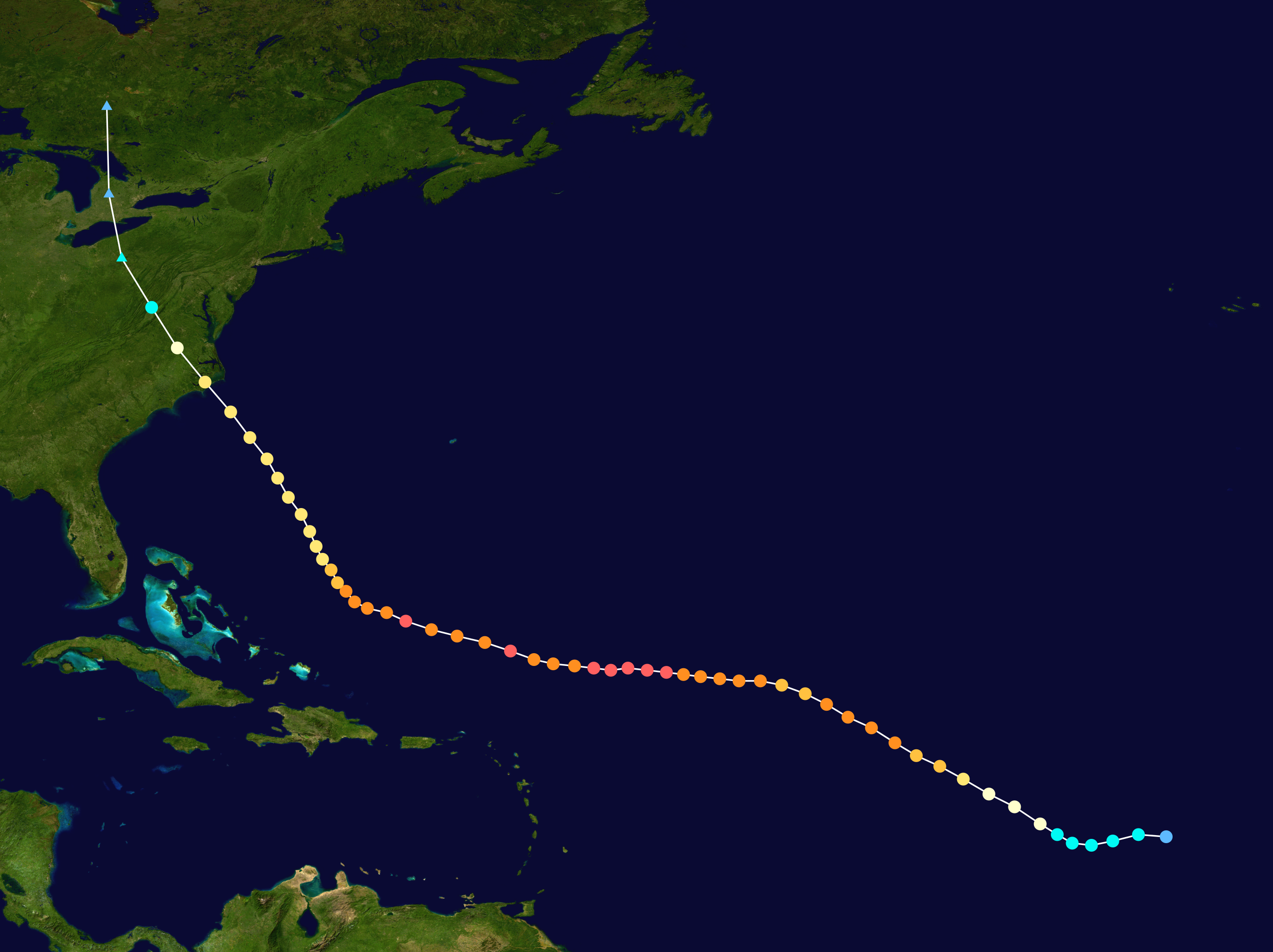 Track map of Hurricane Isabel of the 2003 Atlantic hurricane season. The points show the location of the storm at 6-hour intervals. The colour represents the storm's maximum sustained wind speeds as classified in the Saffir–Simpson scale (see below), and the shape of the data points represent the nature of the storm, according to the legend below. Saffir–Simpson scale Tropical depression≤38 mph≤62 km/h Category 3111–129 mph178–208 km/h Tropical storm39–73 mph63–118 km/h Category 4130–156 mph209–251 km/h Category 174–95 mph119–153 km/h Category 5≥157 mph≥252 km/h Category 296–110 mph154–177 km/h Unknown Storm type Tropical cyclone Subtropical cyclone Extratropical cyclone / Remnant low / Tropical disturbance / Monsoon depression